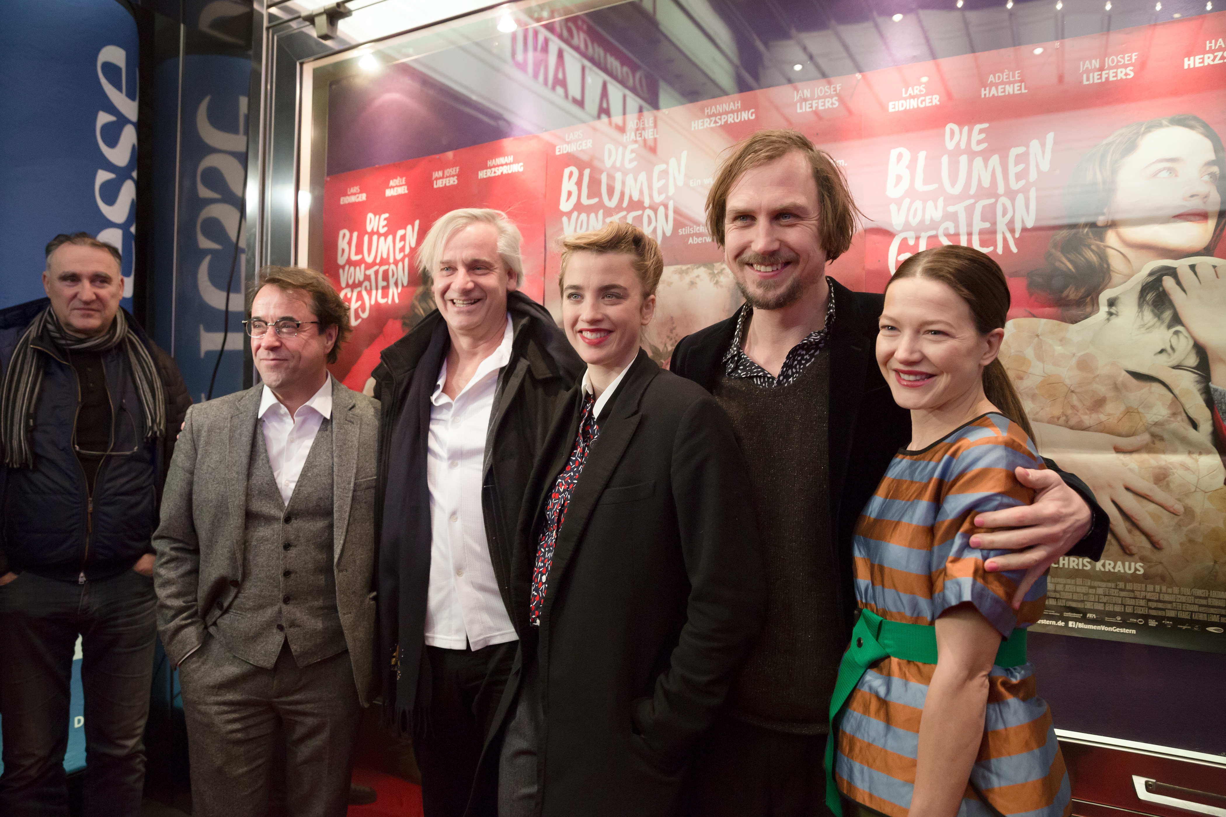 l.t.r.: Kurt Stocker, Jan Josef Liefers, Chris Kraus, Adèle Haenel, Lars Eidinger and Hannah Herzsprung at the Austrian premiere of Die Blumen von gestern at Gartenbaukino, Vienna, Austria.